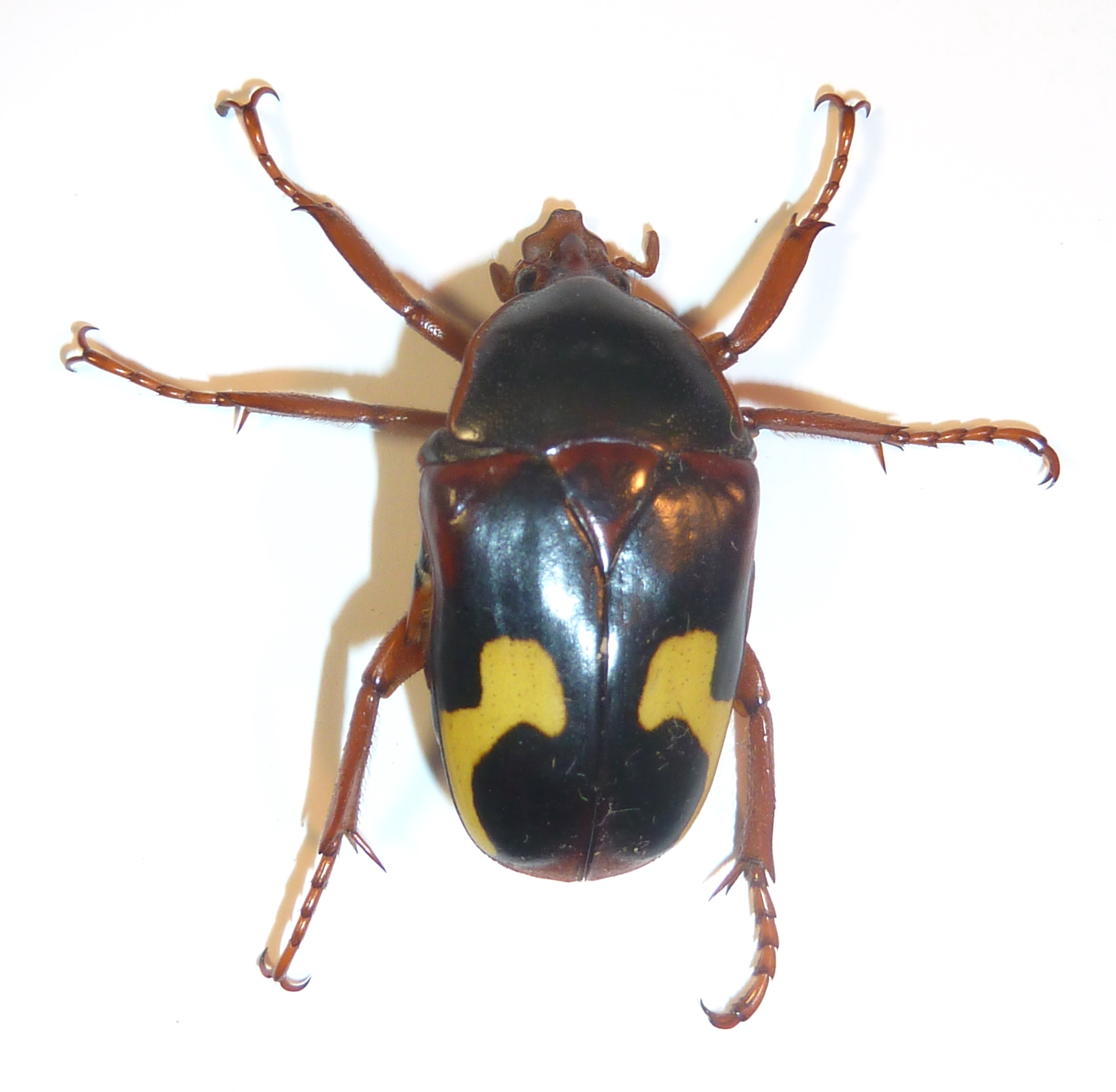 Anisorrhina flavomaculata at Skeerpoort, South Africa